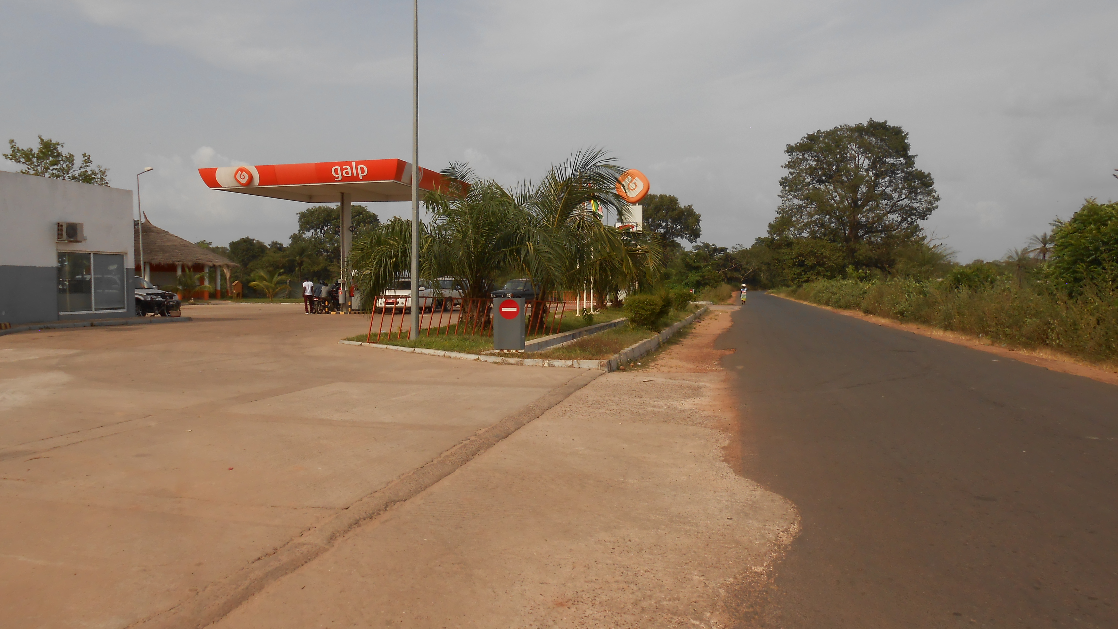 Petrol station of the portuguese Galp company near São Domingos in the Cacheu region in northern Guinea-Bissau.